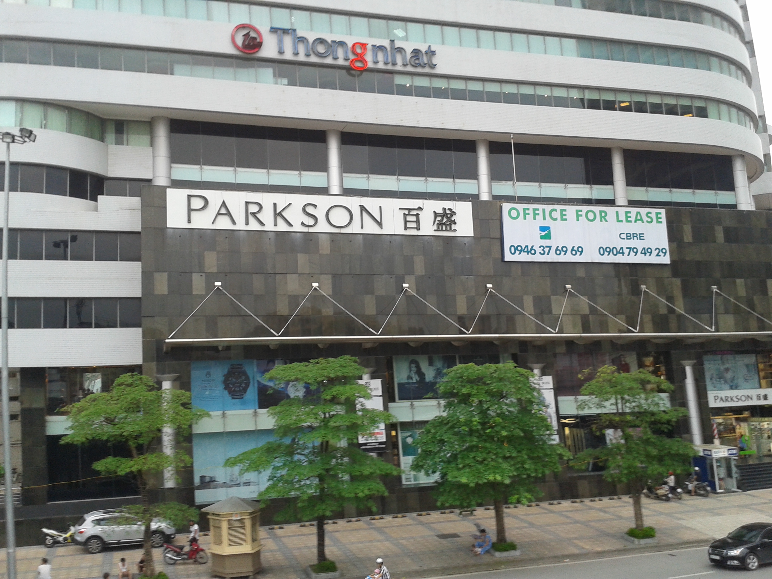 Parkson Shopping Mall, Thái Hà Street, Hanoi